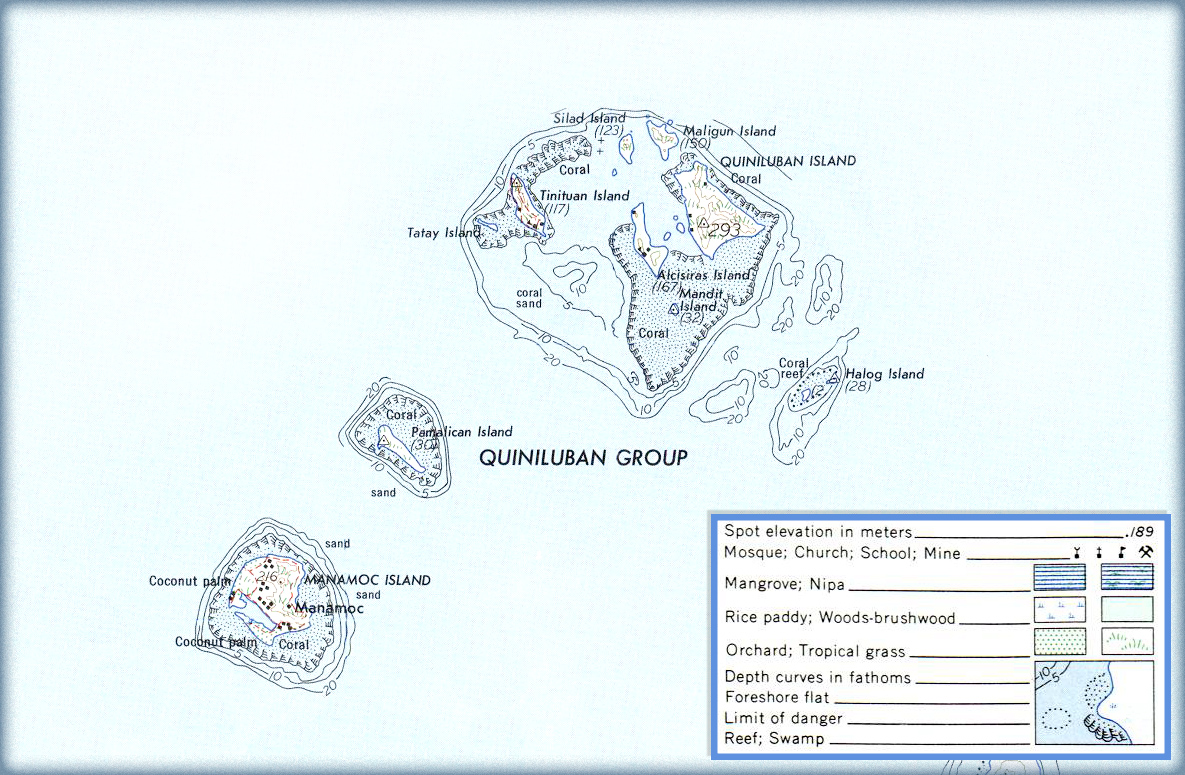 Map of the Quiniluban Island Group in the Cuyo Archipelago between Palawan and Panay Island in the Philippines.